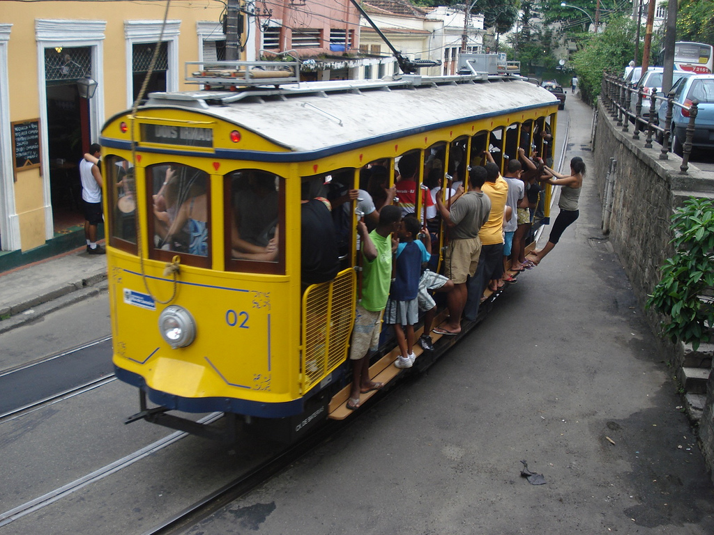 Heavily loaded (or "packed") tramcar 02 of Rio de Janeiro's Santa Teresa tramway just a few meters east of Largo do Guimarães junction, inbound from Paula Matos or the carhouse. (Contrary to the sign showing on the rear of the tram, "Dois Irmãos", car 02 cannot have been coming from Dois Irmãos, because the track used by trams inbound from Dois Irmãos at this location runs along the parallel street at upper right (where cars are parked), at a slightly higher level.)